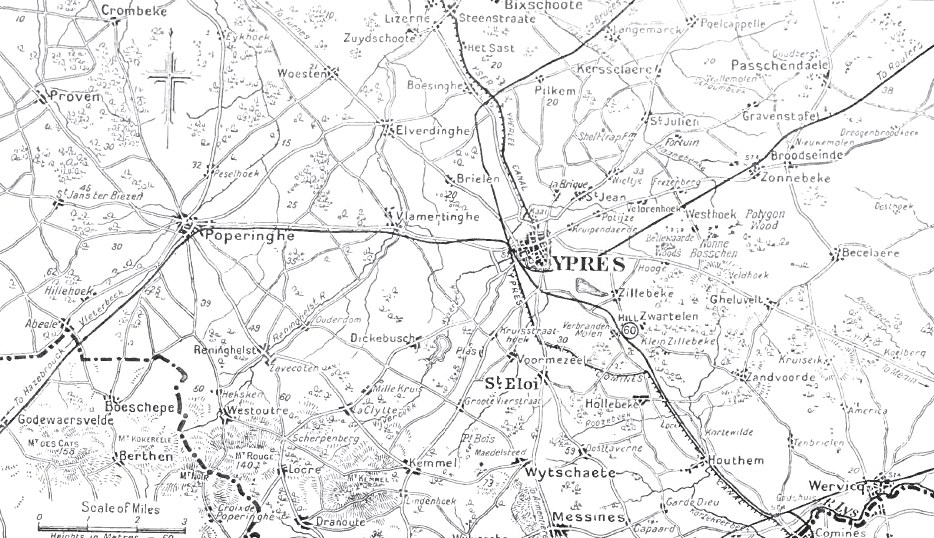 map of the Ypres region in 1915